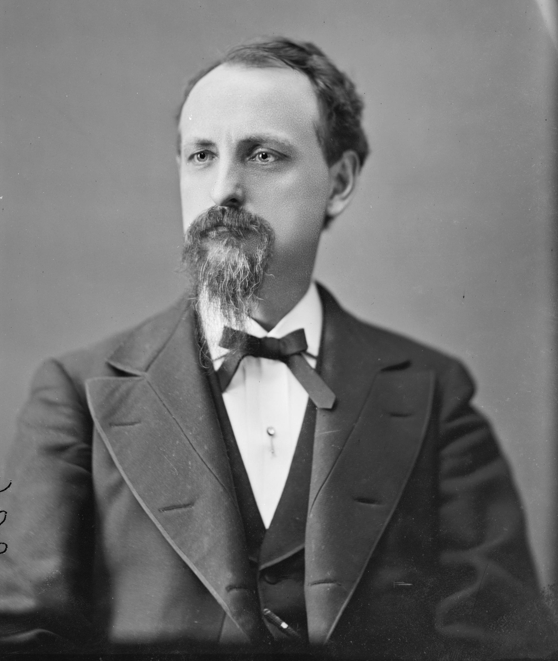 William McFarland. Library of Congress description: "McFarland, Hon. Rep. Wm. of Tenn.".